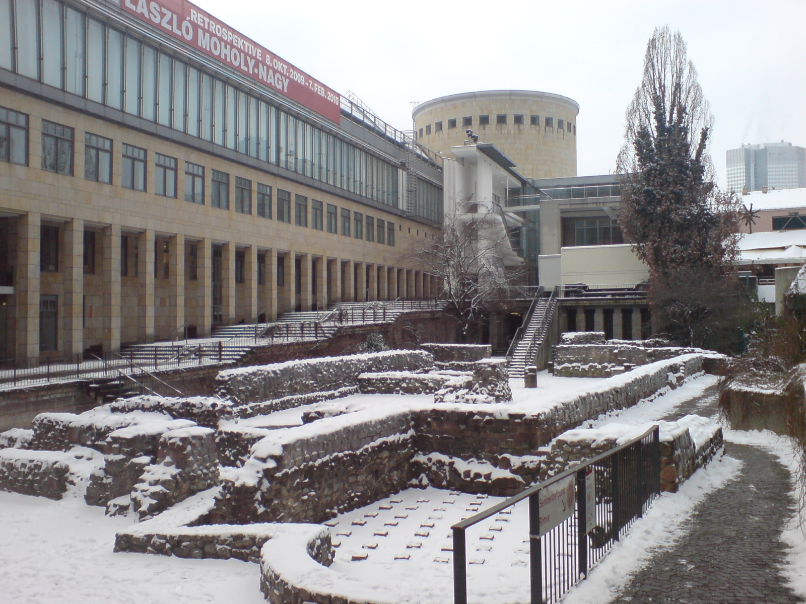 Excavated Ancient Roman ruins, including a hypocaust, in front of the Schirn Kunsthalle, Frankfurt am Main, Germany. Looking westwards.